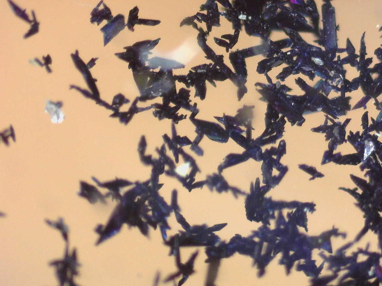 Crystals of ferrocenium hexafluorophosphate, C10H10F6FeP, grown as an undergraduate practical experiment.